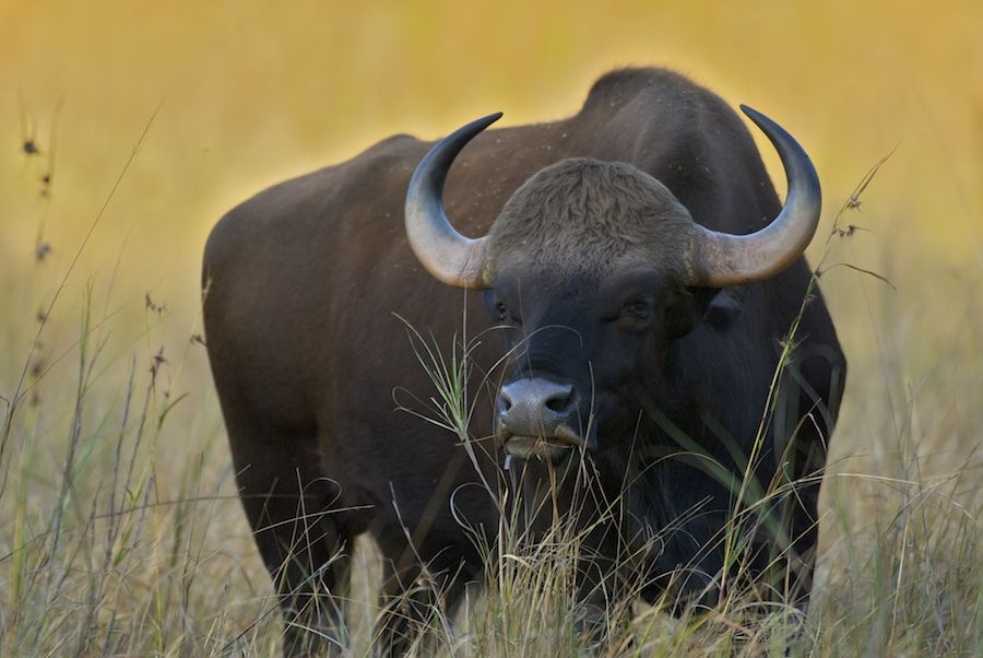 Gaur or Indian Bison, in Kanha National Park, India